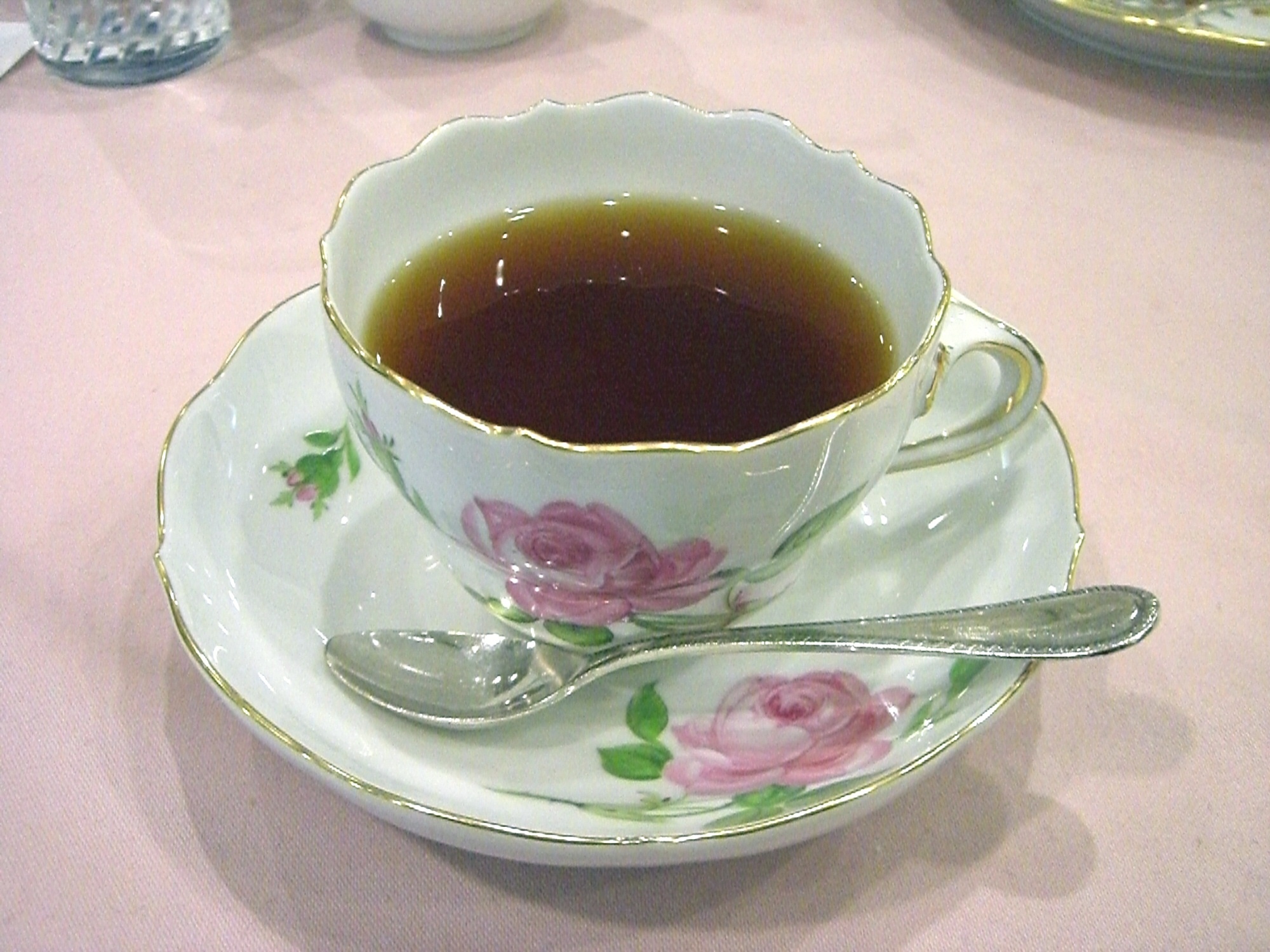 Tea in a Meißen pink-rose teacup